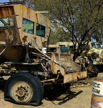 Cropped version of a public domain image. Unused police vehicle, South Africa. Cropped for another article. Limited contextual relevance to original work.